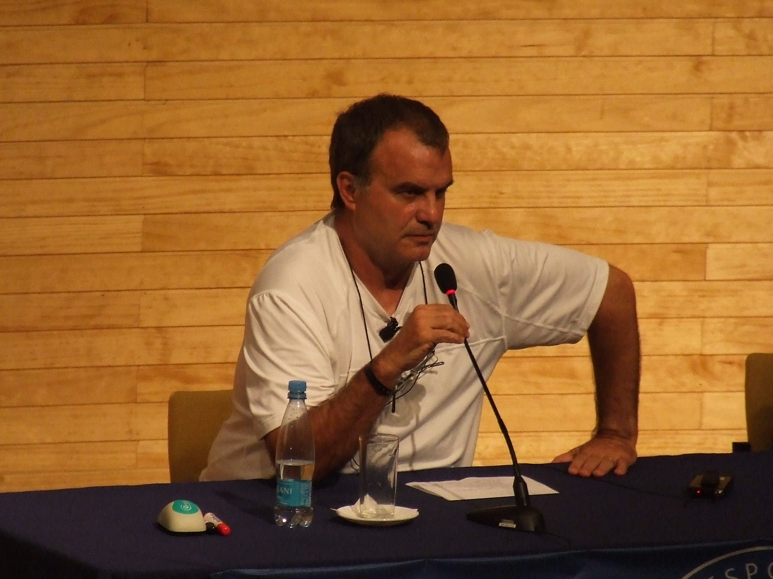 Marcelo Bielsa at a press conference in 2009.